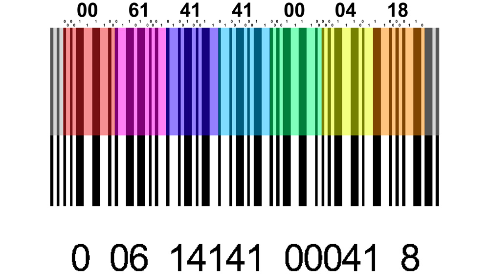 every digit pair is color coded, and on the top the values for each digit and the digit pair are shown.